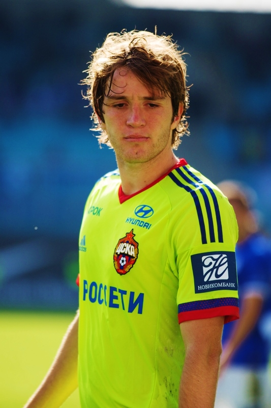 Mário Figueira Fernandes